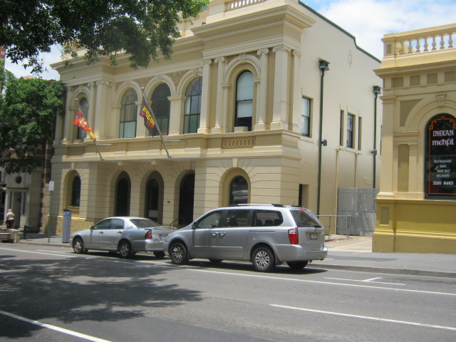 Town Hall (Ipswich) looking East down Brisbane Street